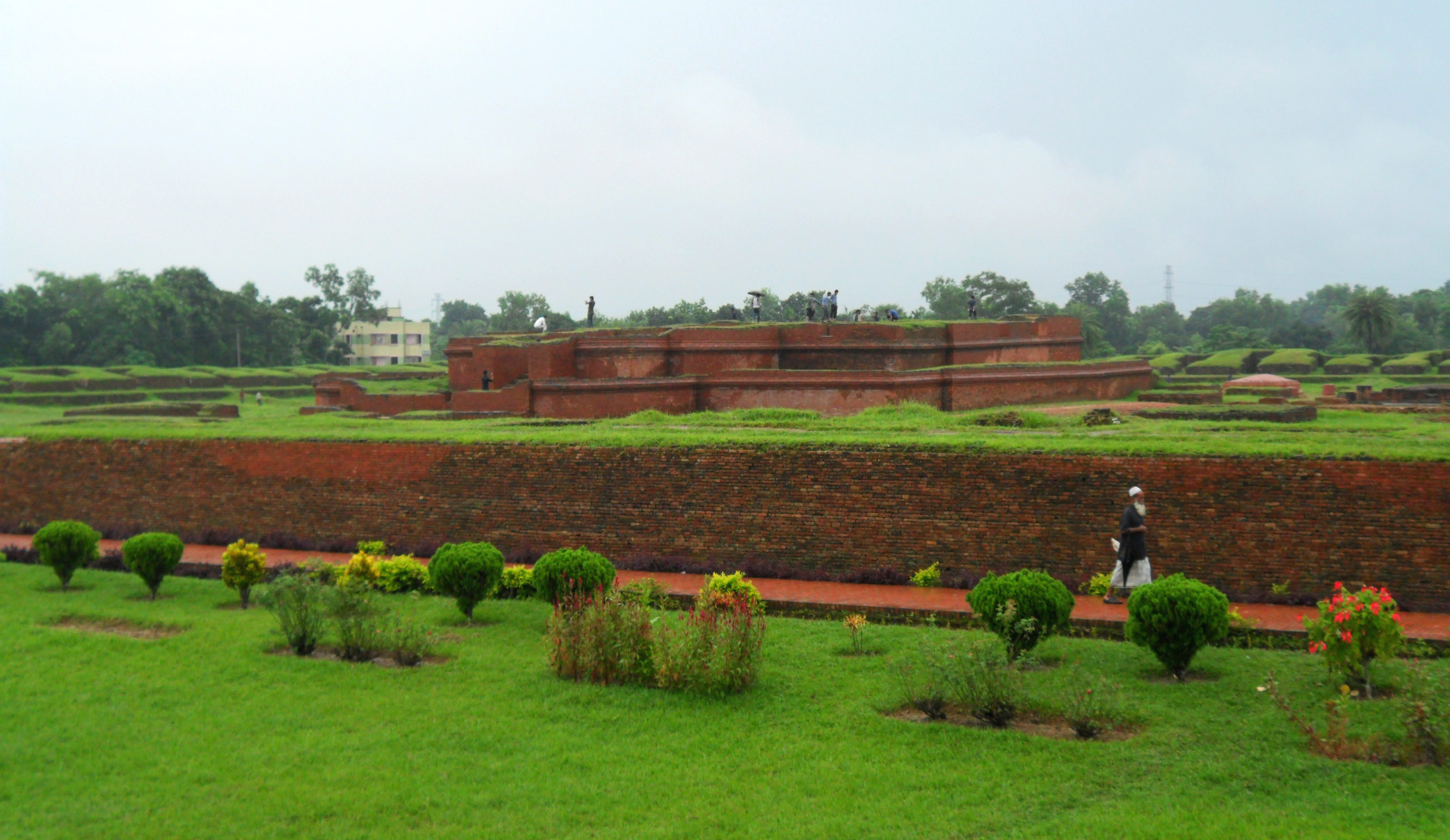 Shalbon Vihara at Comilla, Bangladesh.